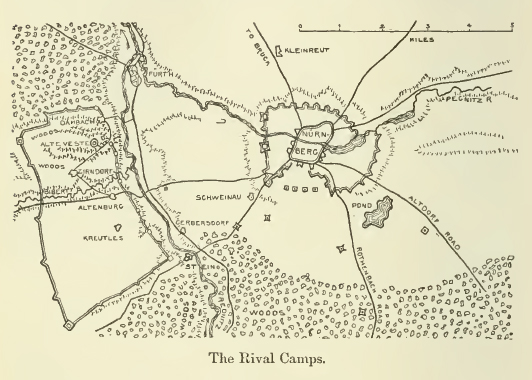 The siege of Nuremberg in 1632: the rival camps.